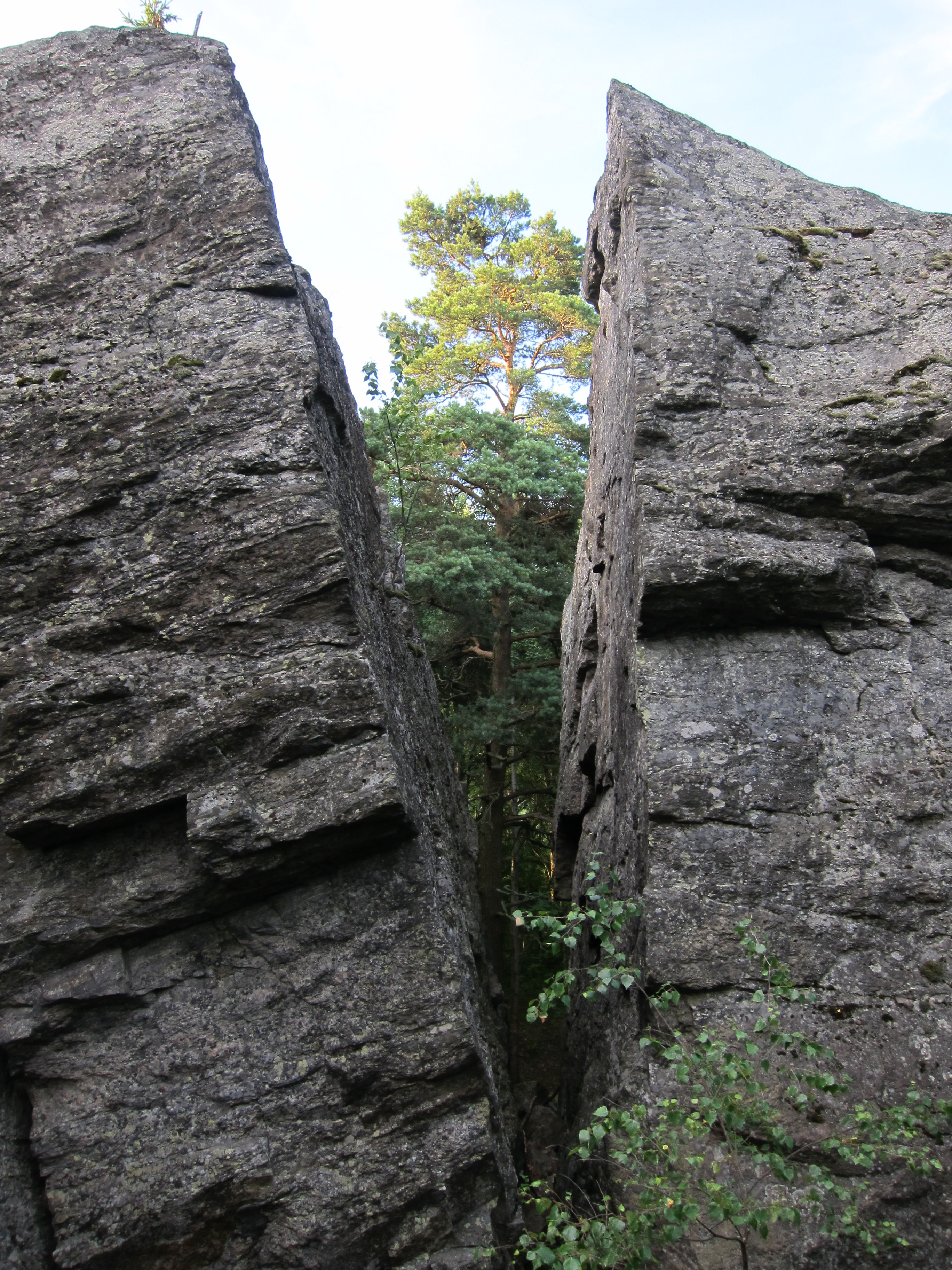 Lentokenttä glacial erratics and Devil's Denis is located nearby Turku Airport at Turku, Finland.